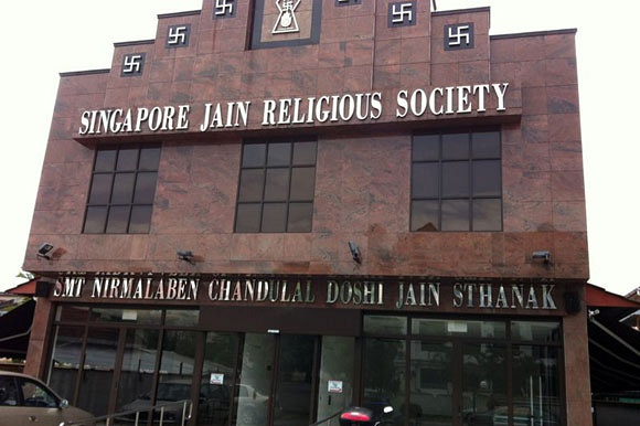 Singapore Jain Religious Society, in Jalan Yasin, Singapore.